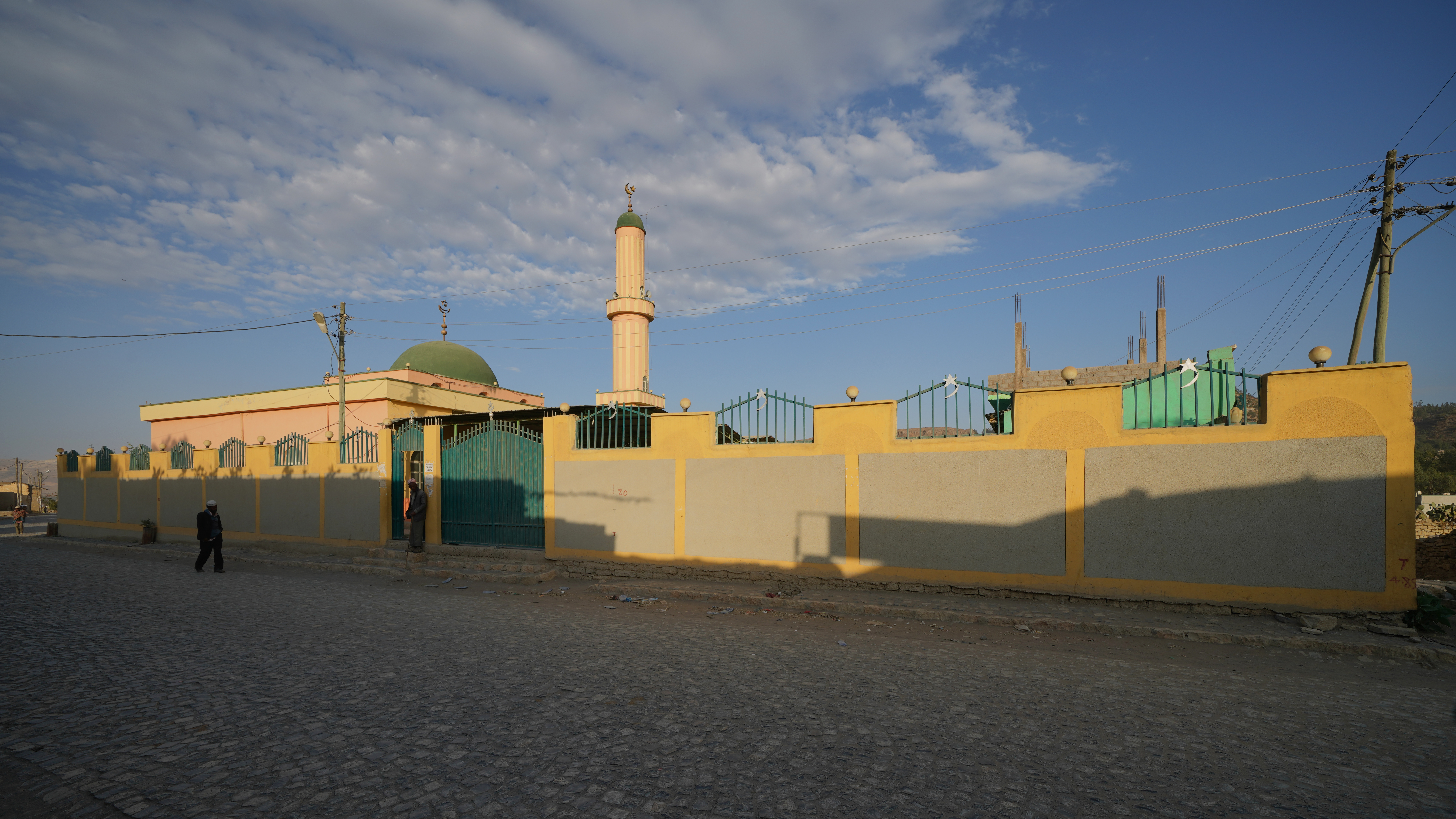 Anwar Mosque in Mekele, Ethiopia